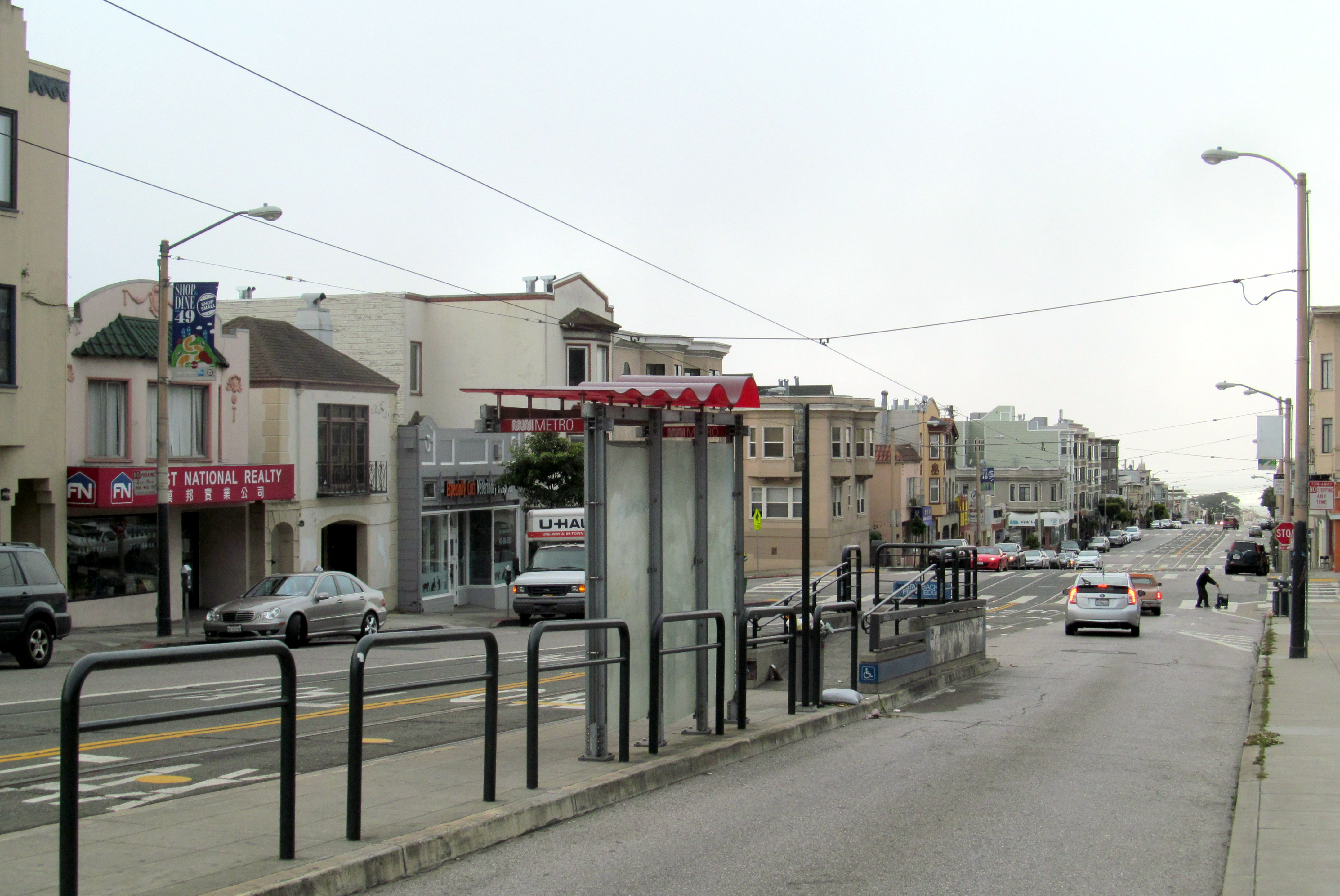 Outbound boarding island at Taraval and 23rd Avenue in June 2017